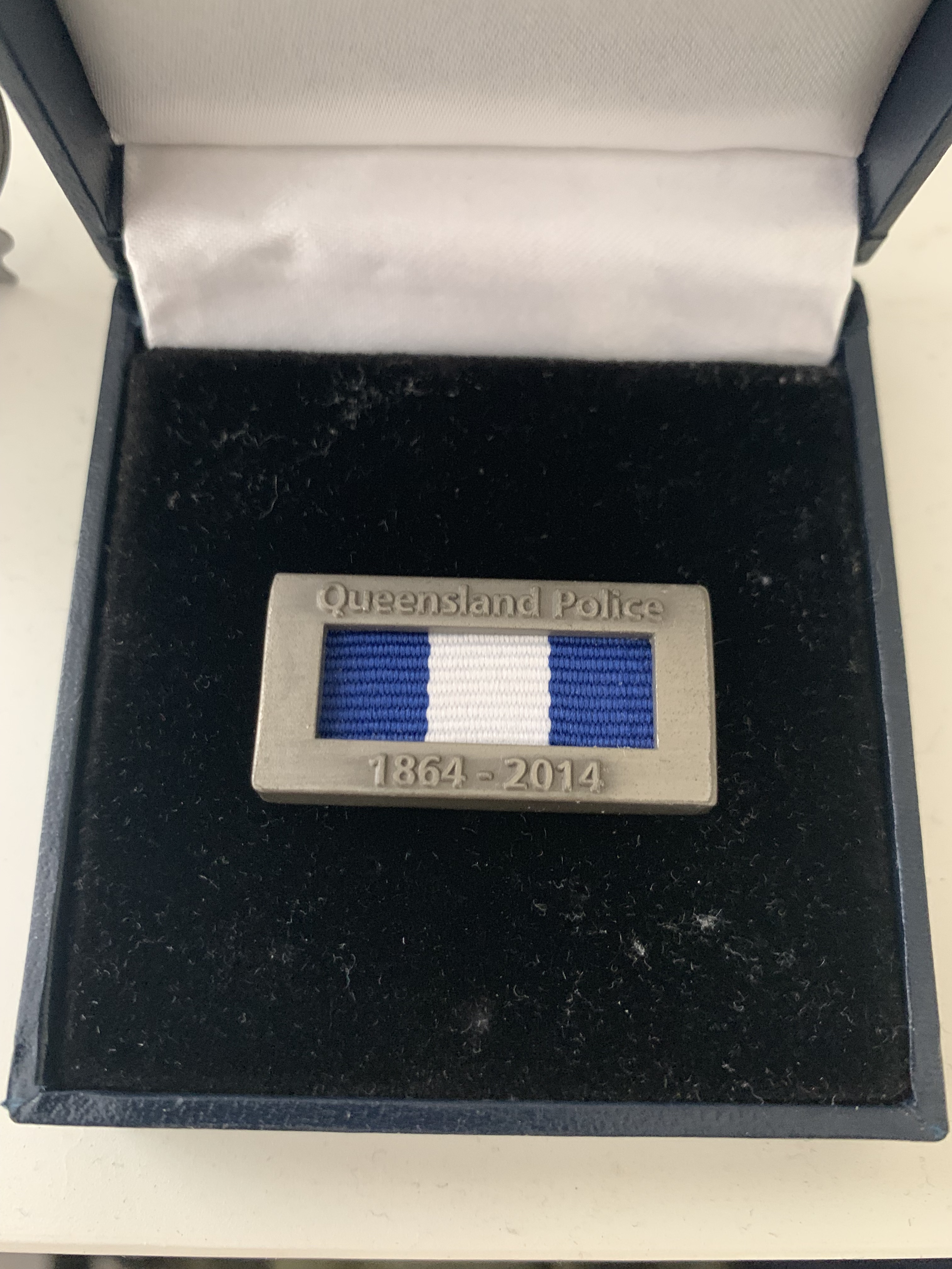 QPS 150 Year Citation